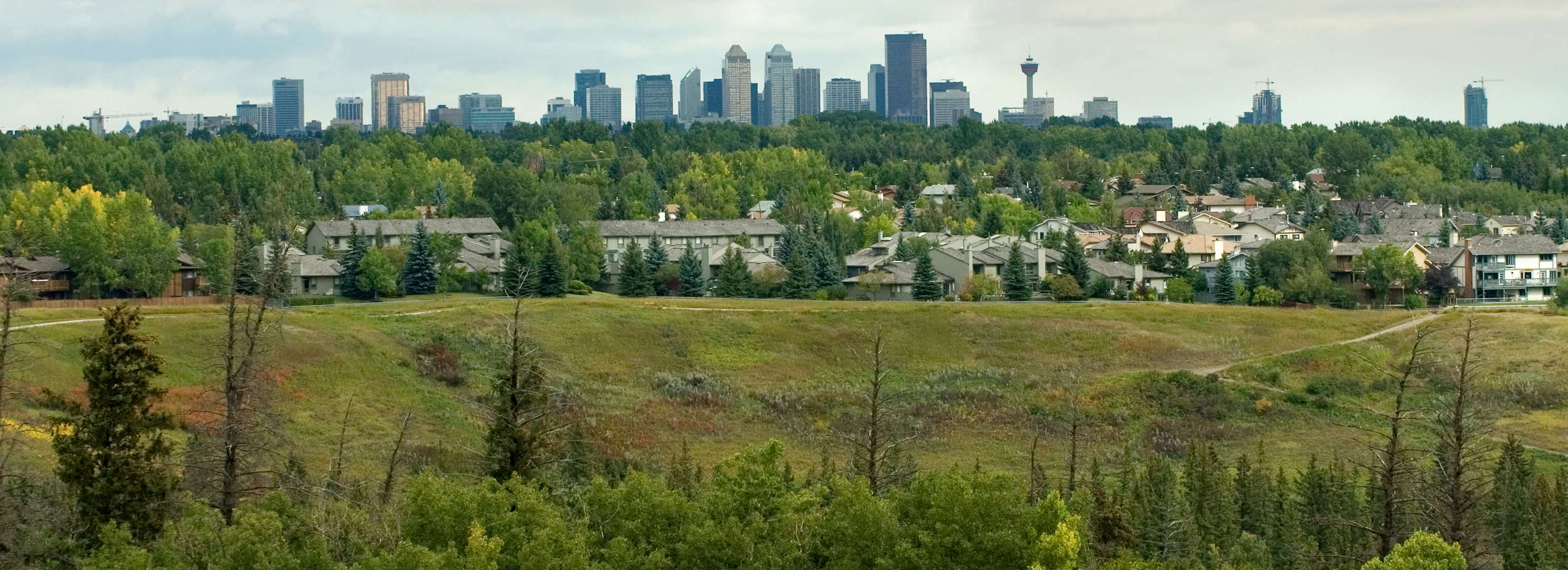 Condos and single family homes in The Woodlands community overlooking Fish Creek Park in Calgary, Alberta. Photo by Chuck Szmurlo taken September 1, 2007 with a Nikon D200 and a Nikon 70-200 f2.8 lens.